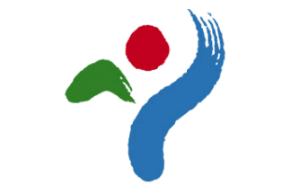 Flag of Seoul